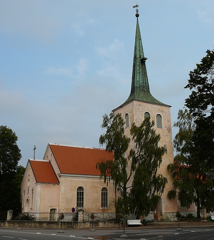 The church of Paide on Middle Estonia.